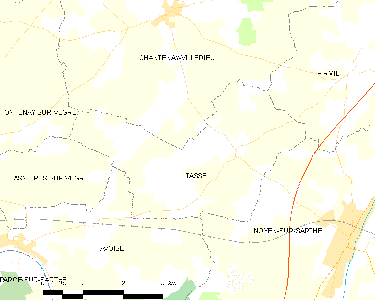 Map of French municipality